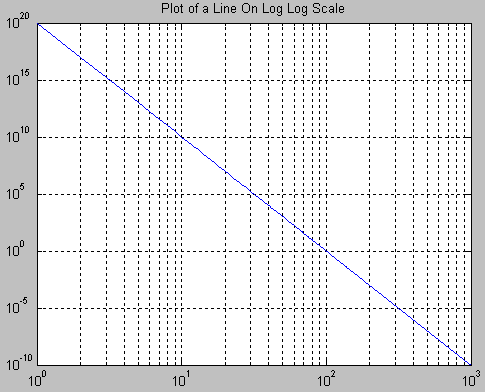 Author: Darren O'Connor